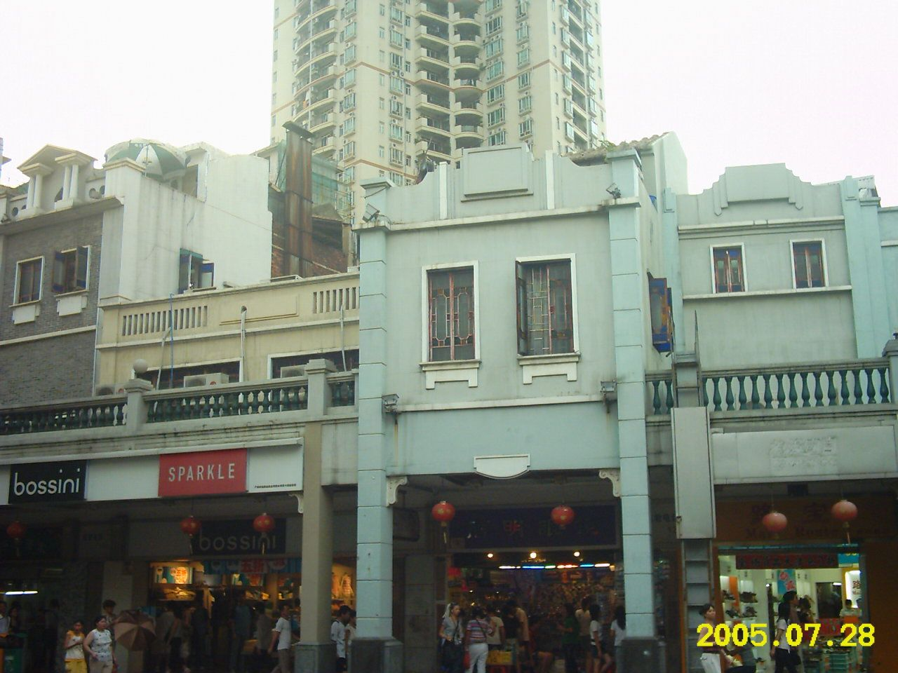 Architects along Shangxiajiu.